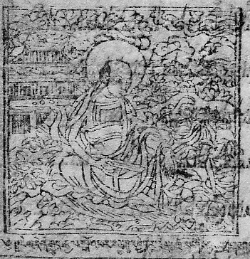 Dro Lotsava Sherab Drags (´bro lo shes rab grags), Tibetan translator of the 11th century according to a Tibetan blockprint of the Vaidurya dkar-po (1685)